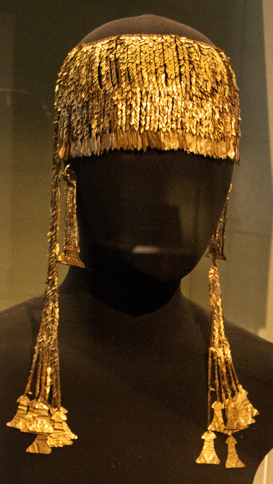 Big_golden_diadem_with_pendants in the shape of "idols", with basket_earring with pendants also in the shape of "idols"